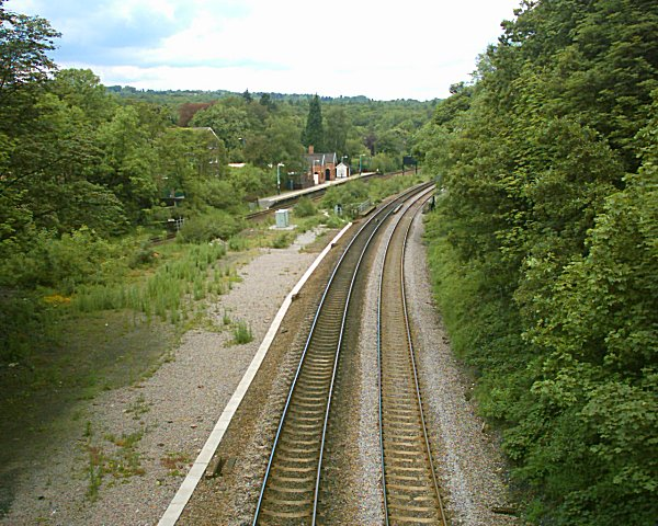 Dore & Totley station, Sheffield